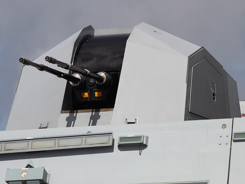 The Denel 35mm Dual Purpose Gun is a close-in weapon system for warships made in South Africa by Denel Land Systems.